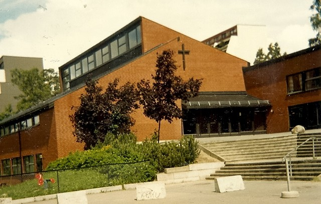 Stovner church in Oslo, Norway